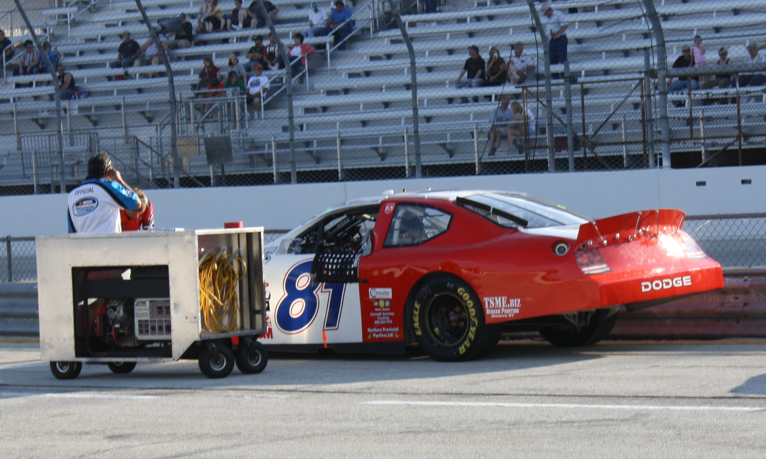 NASCAR driver Bobby Hamilton, Jr.s Dodge at the 2009 Northern 250 Nationwide Series race at the Milwaukee Mile.